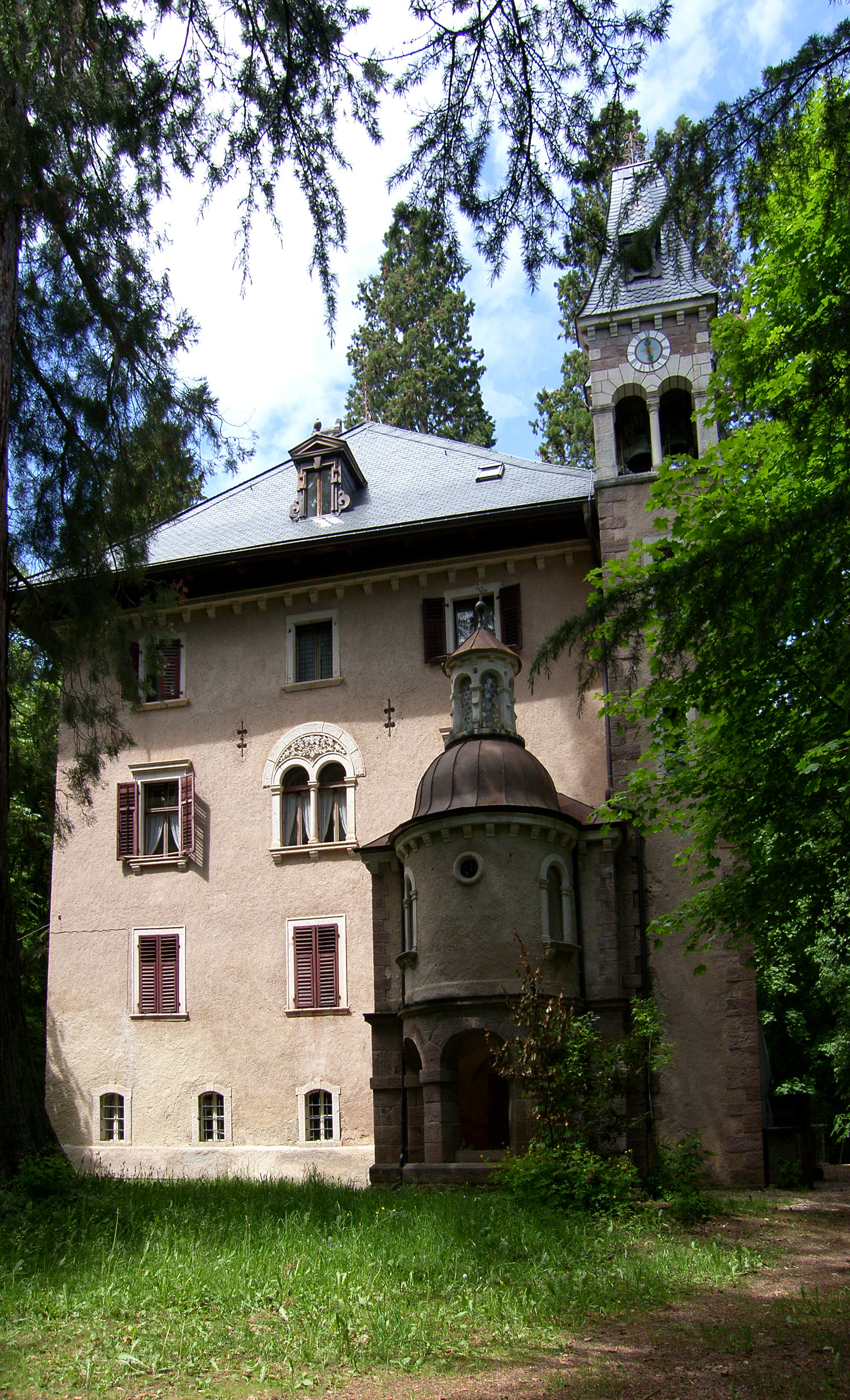 Matschatsch castle, Eppan (it: Appiano), Sout Tyrol, Italy , rear view